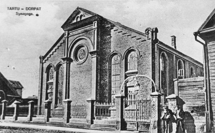 Synagogue in Tartu